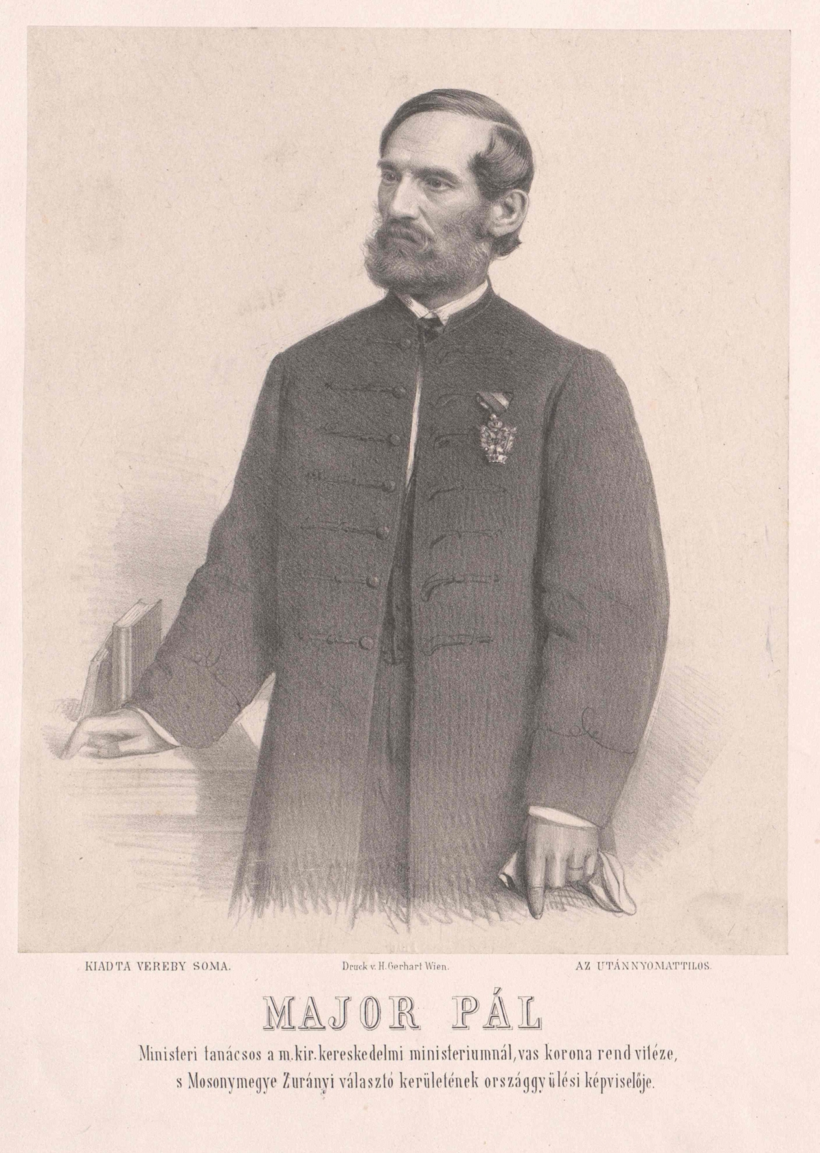 Major Pál (Mezőberény (Békés megye), 1818. május 4. – Magyaróvár, 1890. augusztus 13.) miniszteri tanácsos és országgyűlési képviselő, Moson vármegye alispánja.